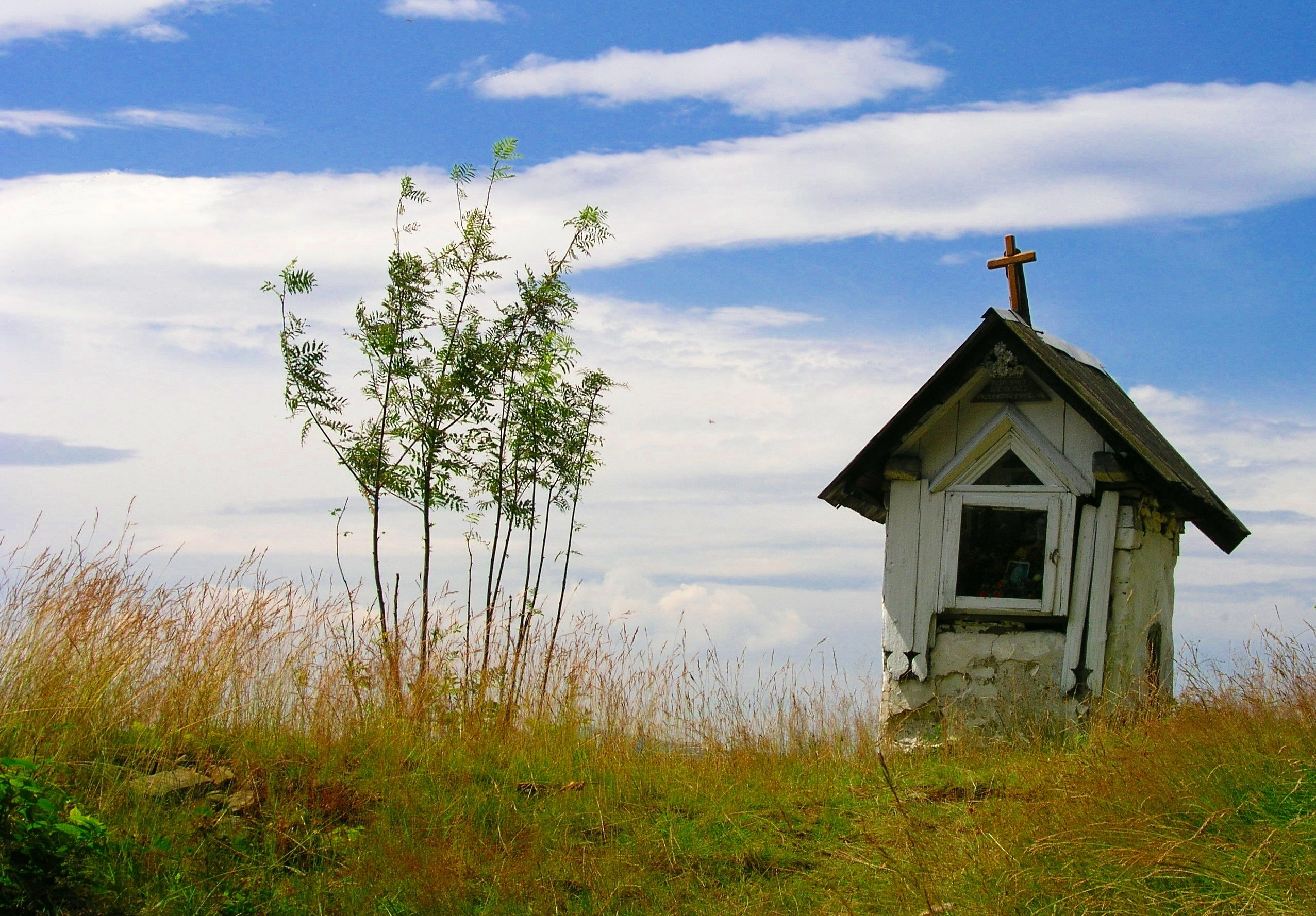 Shrine in Brenna, Poland